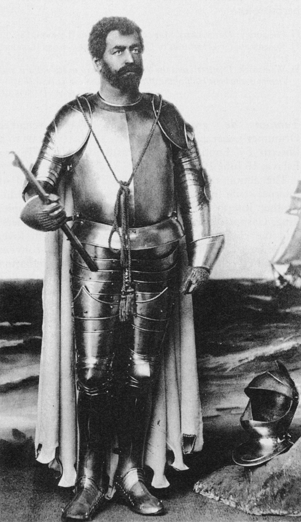 Photograph of tenor Francesco Tamagno (1850–1905) in the title role of Verdi's opera Otello in the original 1887 production at La Scala, Milan